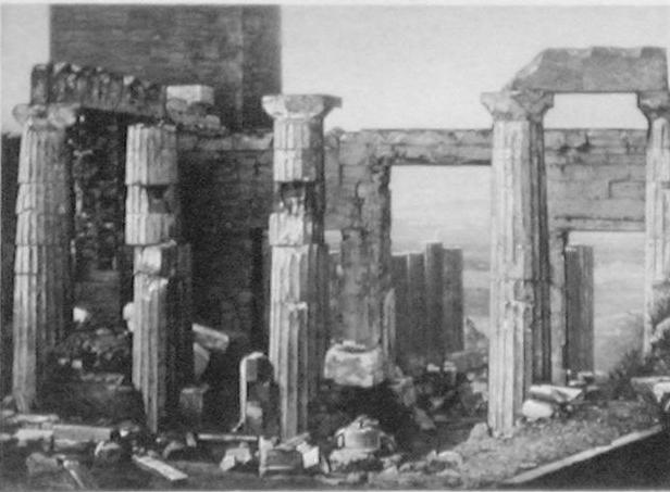 Engraving of the first photograph of the Propylaea (with a part of the the now-demolished Frankish Tower behind it). Daguerreotype photograph taken by Pierre-Gustave Joly (Pierre-Gustave Joly de Lotbinière) in October, 1839. Engraved by Adolphe Pierre Riffaut. Published in Excursions daguerriennes, Noël Paymal Lerebours (publisher), Paris, 1841.